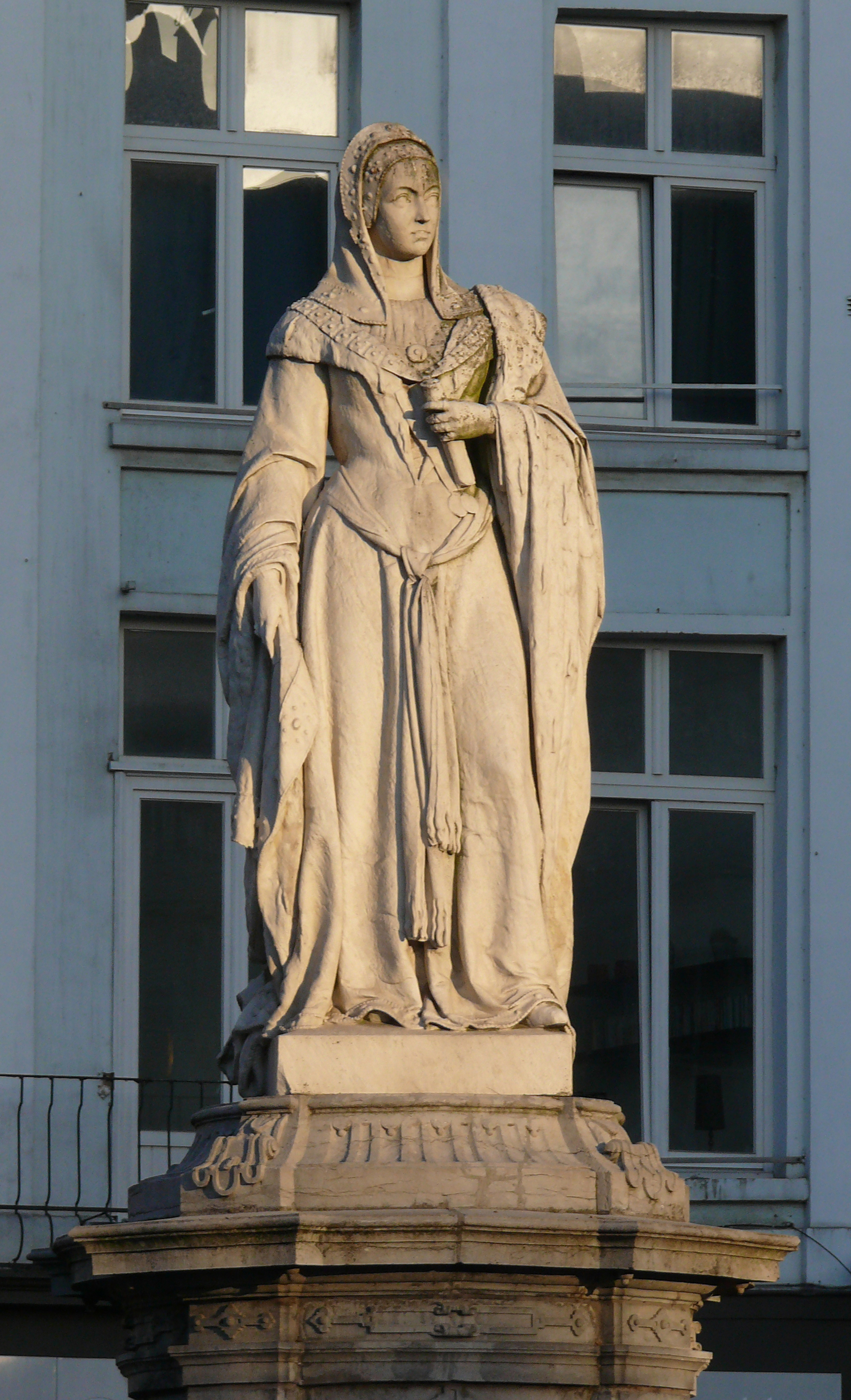 Statue of Margaret of Austria, Duchess of Savoy on the Schoenmarkt in Mechelen. The statue was made by sculptor Joseph Tuerlinckx [1] and erected in 1849.